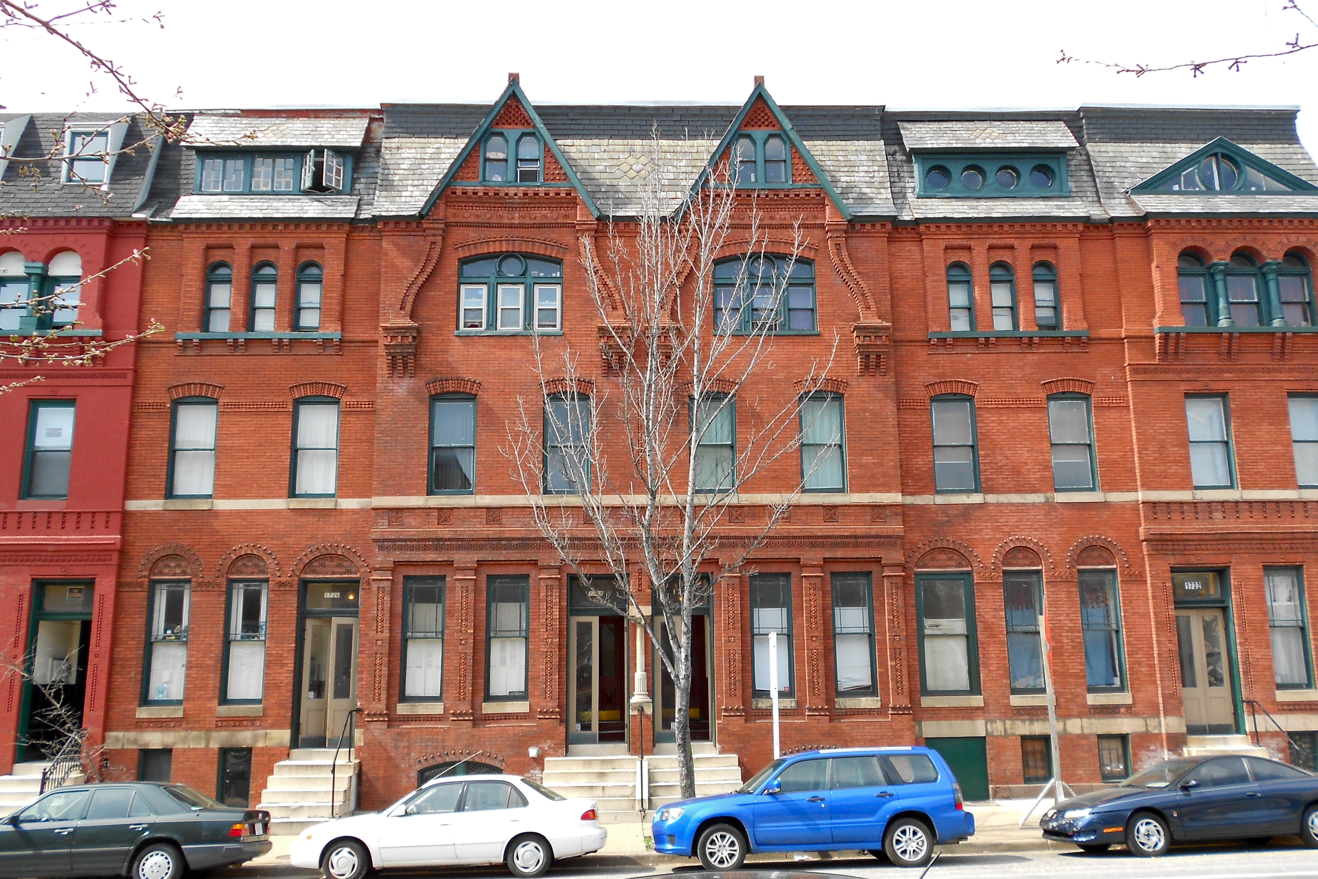 Buildings on St. Paul Street part of the NRHP Historic District "Buildings at 1601-1830 St. Paul Street and 12-20 E. Lafayette Street" on the NRHP since December 27, 1984 in central Baltimore, Maryland just north of the train station.